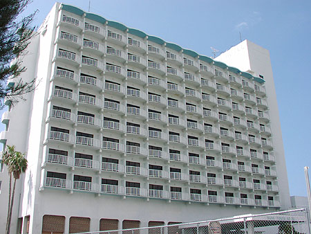 Former Naha Tokyu Hotel